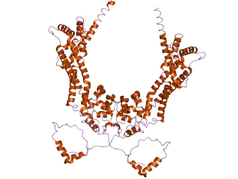 Cartoon representation of the molecular structure of protein registered with 1ux4 code.